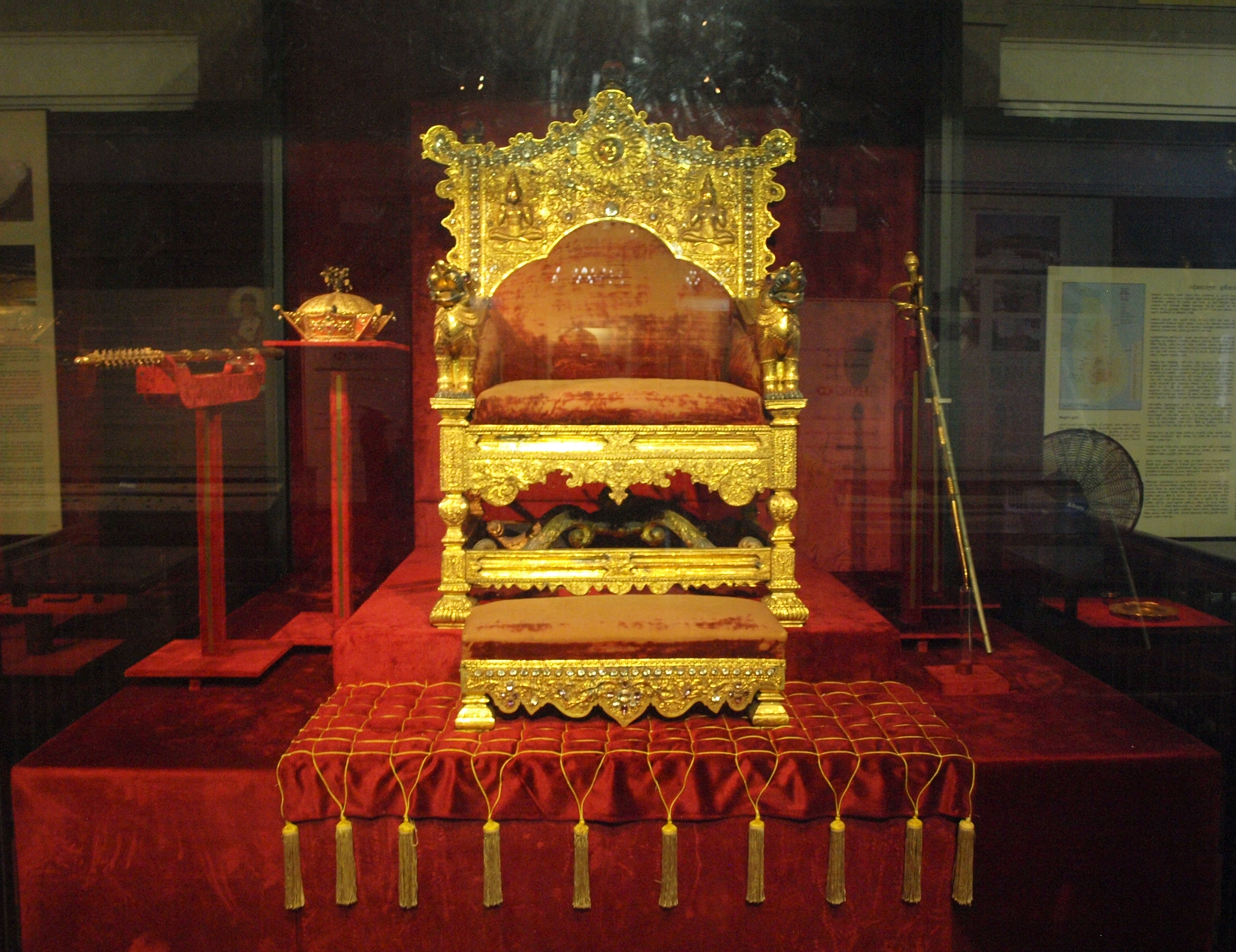 The Throne of Kandyan Era Sri Lankan Kings.